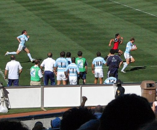 Argentina at San Diego 2008 Rugby Seven Tournament (frag)